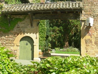 Porch from Chateau des Correaux, Leynes, France